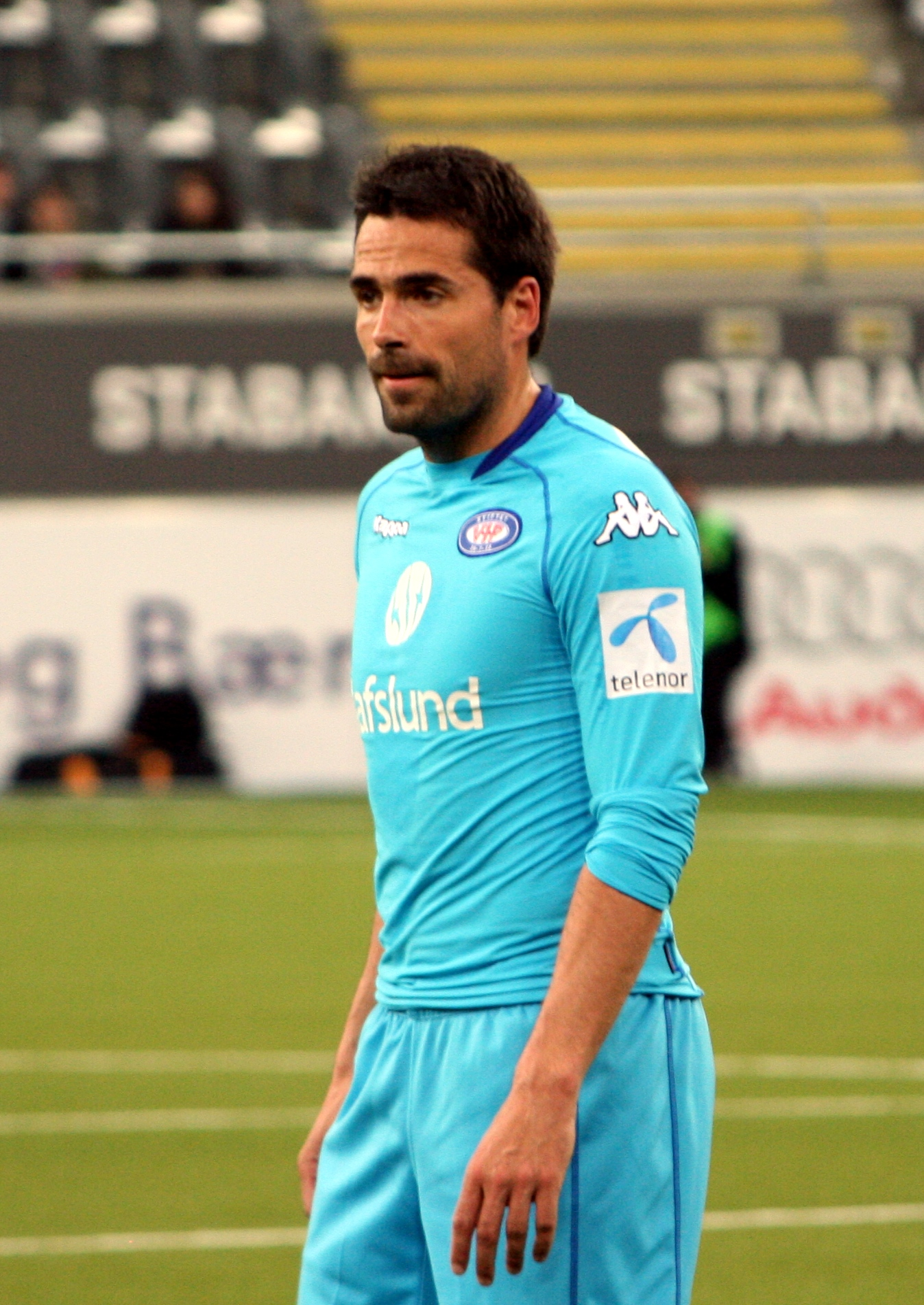 Norwegian footballer Martin Andresen.